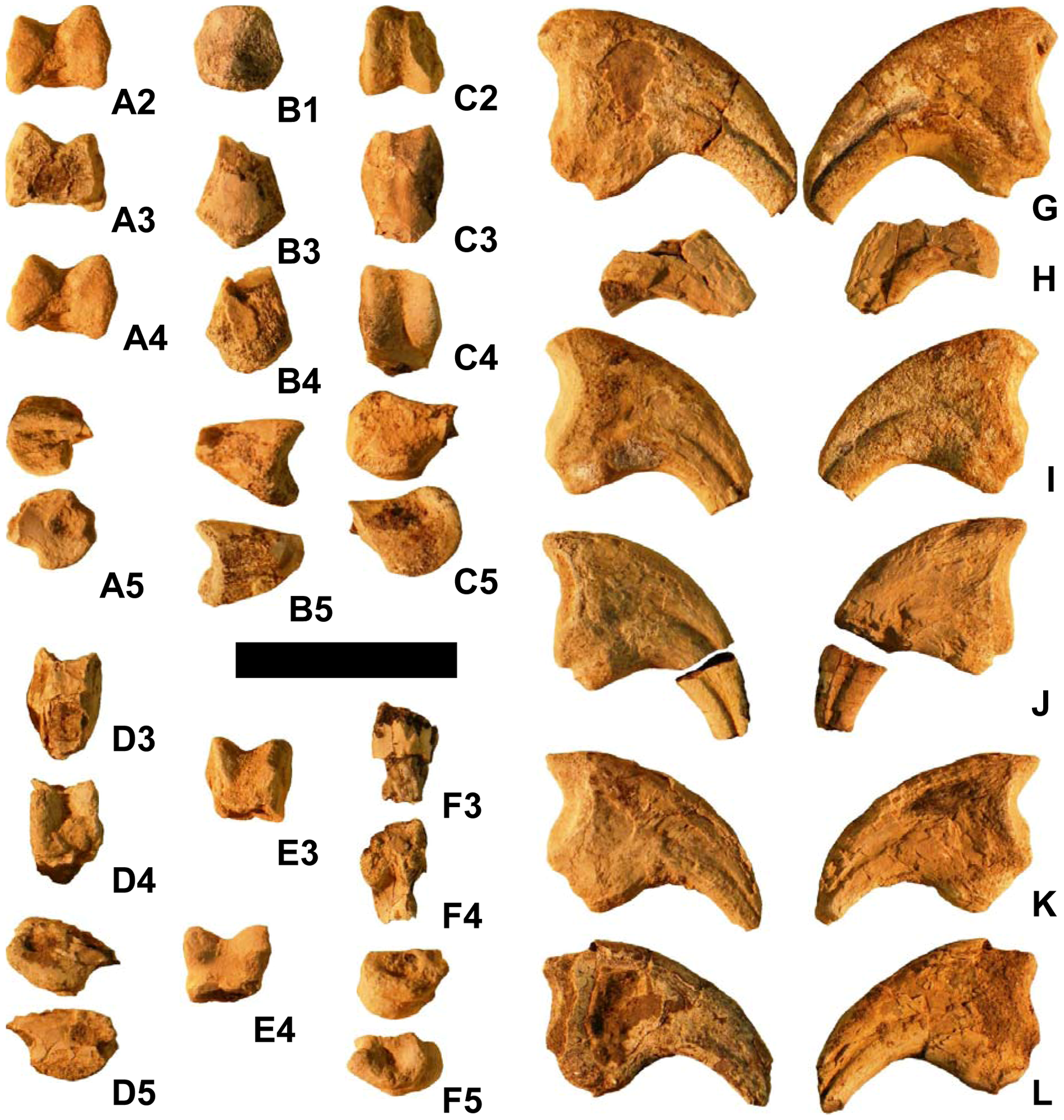 Manual bones of Martharaptor greenriverensis (UMNH VP 21400). (A)–Presumed metacarpal I. (B)–Presumed phalanx I-1. (C)–Penultimate phalanx. (D) Penultimate phalanx. (E)–Unidentified phalanx. (F)–Unidentified phalanx. (G)–Ungual of digit I. (H)–Ungual of digit I. (I)–Ungual of digit II. (J)–Ungual of digit II. (K)–Ungual of digit III. (L)–Ungual of digit III. Scale bar = 50 mm. Numbers on sub-figures refer to proximal (1), distal (2), dorsal (3), palmar (4), and side (5) views; for side views, whether the side is medial or lateral cannot be determined.